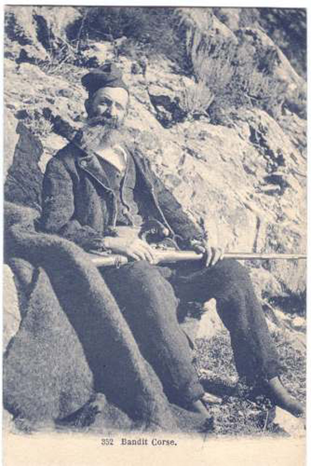 Corsican bandit early XX century